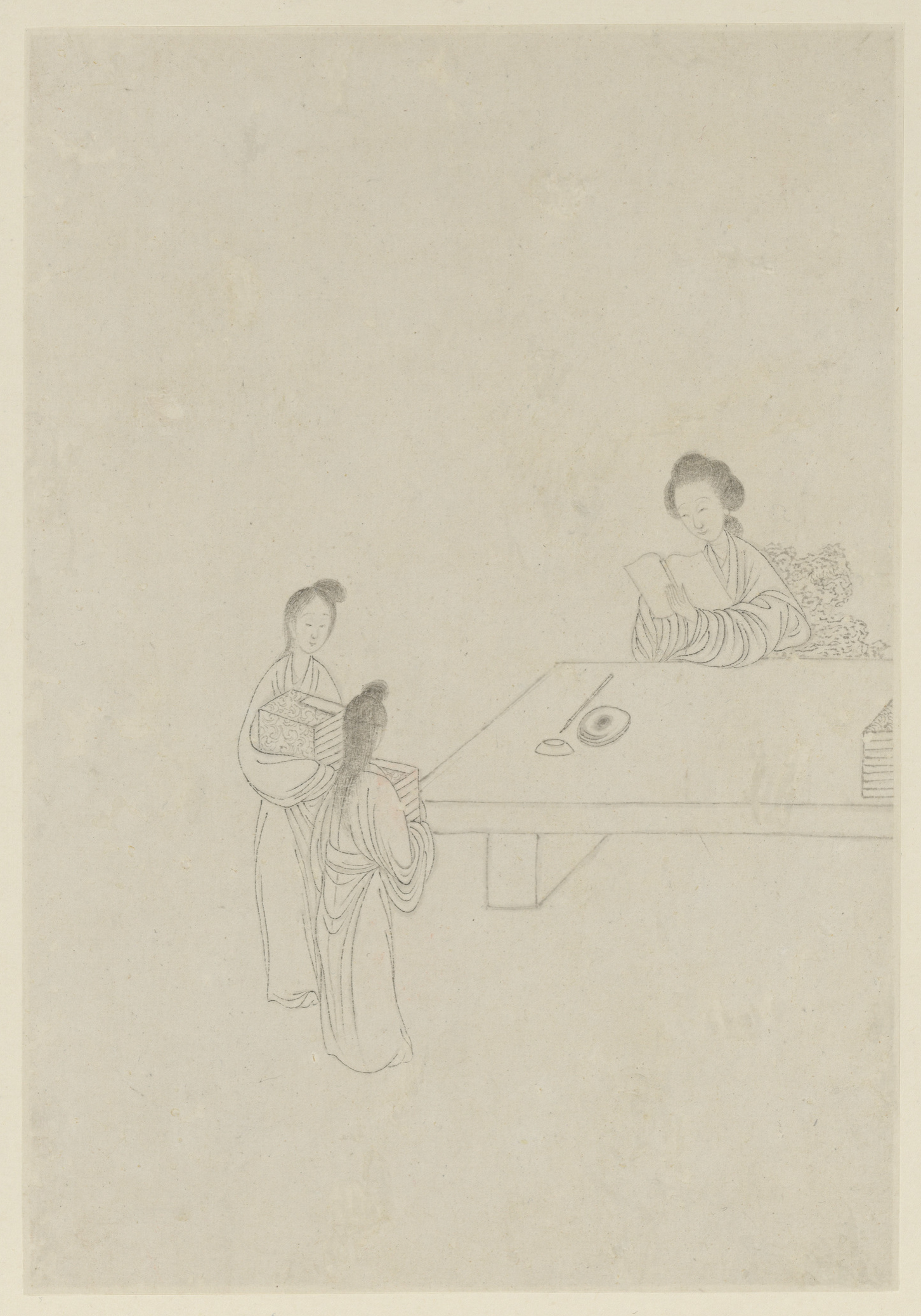 This depicts the historian Ban Zhao (班昭).